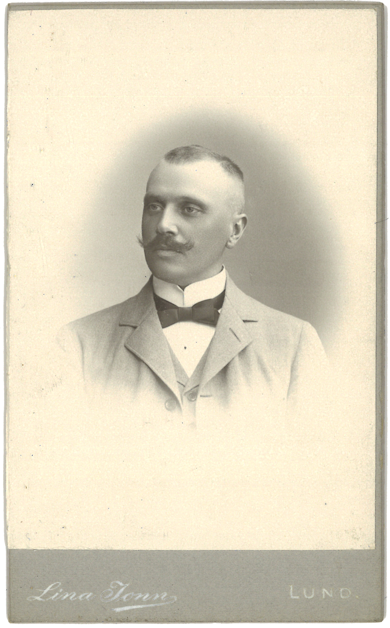 Ernst A. Kallenberg (1866-1947), Swedish jurist and professor at Lund University.